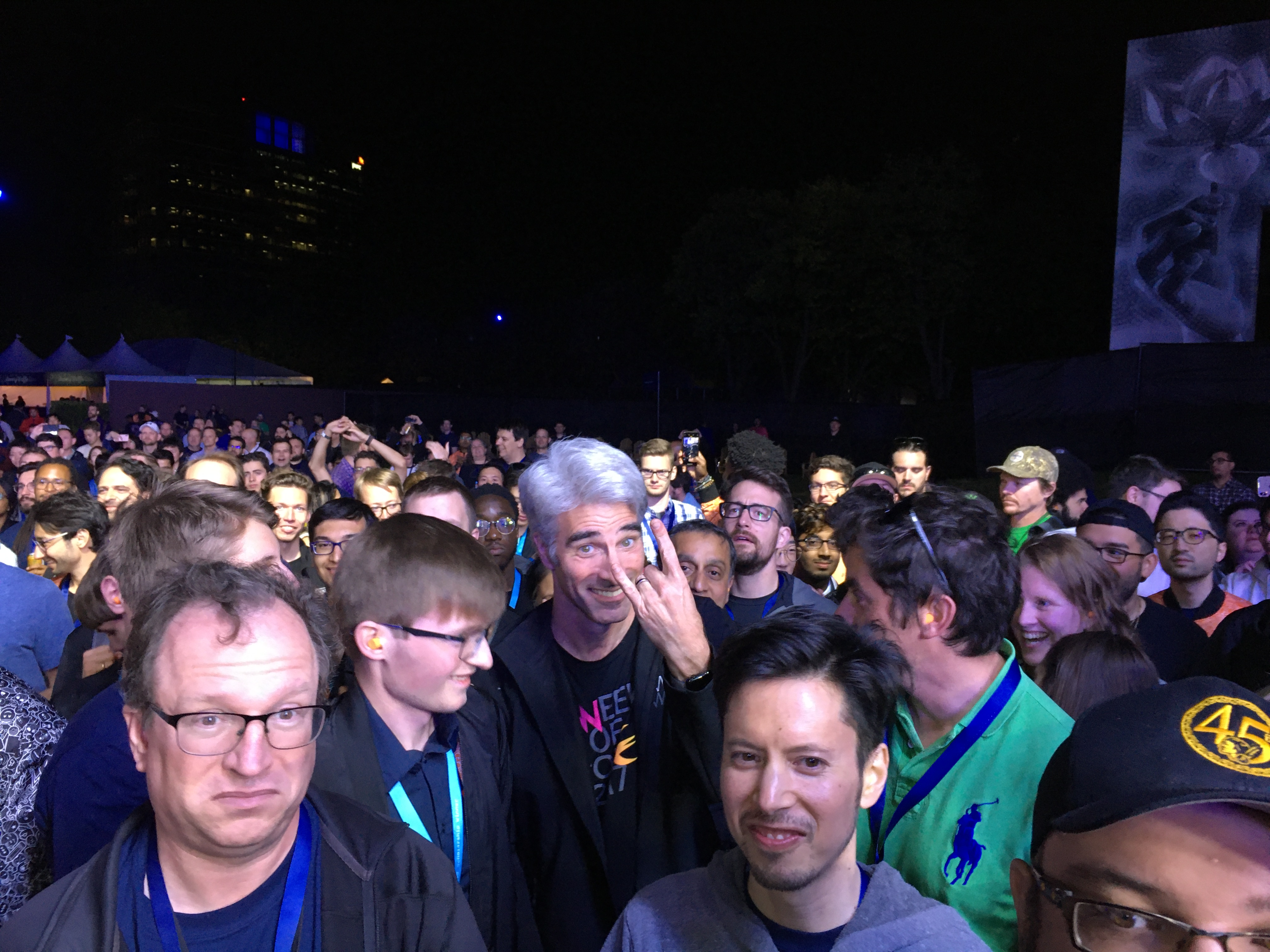 Craig Federighi, Apple SVP of Software Engineering, at Apple WWDC 2019 (conference)